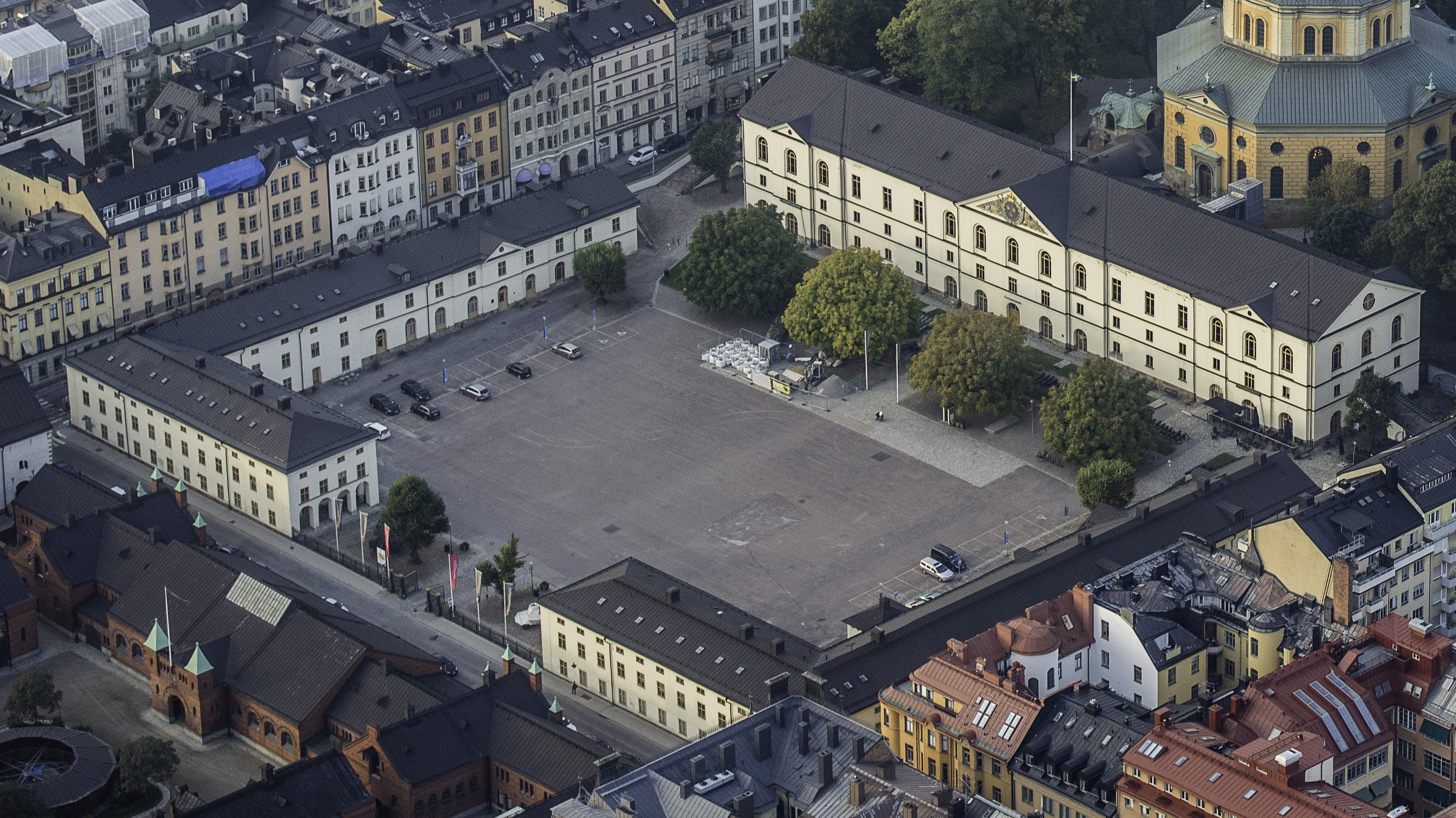 Swedish Army Museum, Östermalm, Stockholm.)